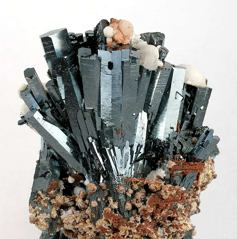 Andradite, Hematite Locality: Wessels Mine (Wessel's Mine), Hotazel, Kalahari manganese fields, Northern Cape Province, South Africa (Locality at ) Size: cabinet, 10.5 x 7.5 x 5.5 cm COLUMNAR HEMATITE on ANDRADITE Charlie says he obtained the two best specimens of a small pocket, found some time ago. This one features a spray of upright columnar hematite crystals to 6 cm leaping off from andradite garnet matrix. No damage and complete-all-around - it is a magnificent specimen period and a truly unprecedented hematite. Ex. Charlie Key Collection.